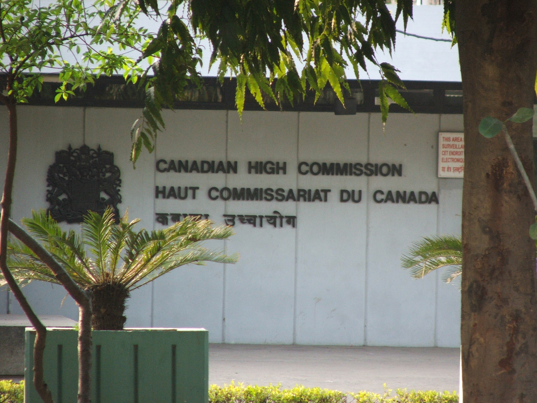 Canadian High Commission in New Delhi, India. - 7/8 Shantipath, Chanakyapuri New Delhi 110 021, India